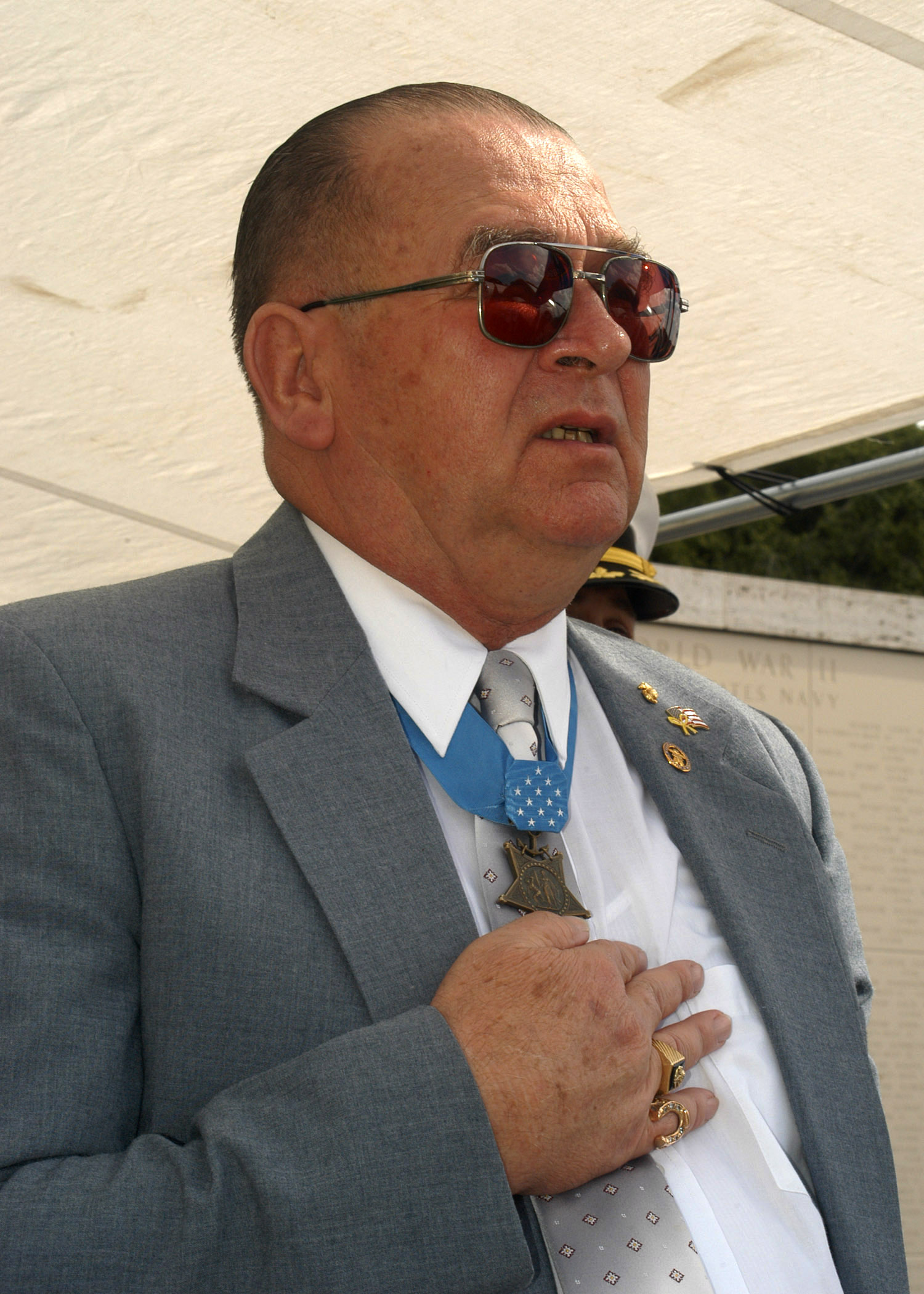 Honolulu, Hawaii (Nov. 11, 2003) --Vietnam Veteran and Medal of Honor recipient, Sergeant Major Allen Kellogg (Ret.) renders honors as war veterans, active duty service members, and guests gathered for the 53rd Annual Massing of the Color's Ceremony on Veteran's Day at Punchbowl, The National Memorial Cemetery of the Pacific in Honolulu, Hawaii.